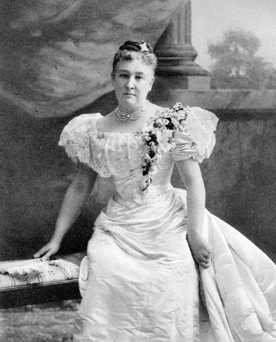 This image was published in David Magie's book The Life of Garret Augustus Hobart (1910), following page 198, see here. Photographer and date of image not known.